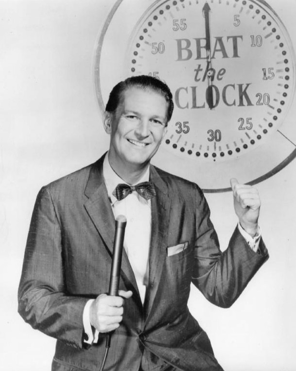 Photo of Bud Collyer as the host of the television program Beat the Clock.